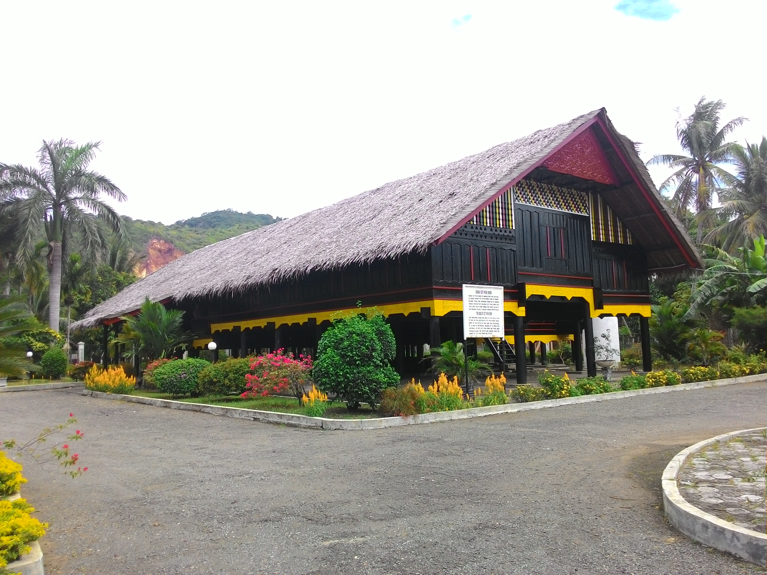 Cut Nyak Dhiën house in Lampisang, Aceh Besar